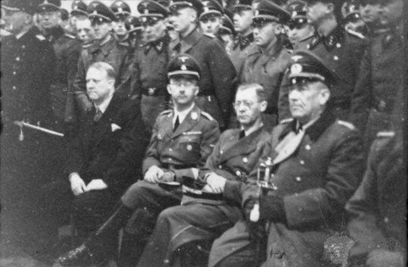 The first Norwegian volunteers taking the oath as new soldiers of Regiment Nordland of the Waffen-SS during a ceremony in Oslo, 31 January 1941.